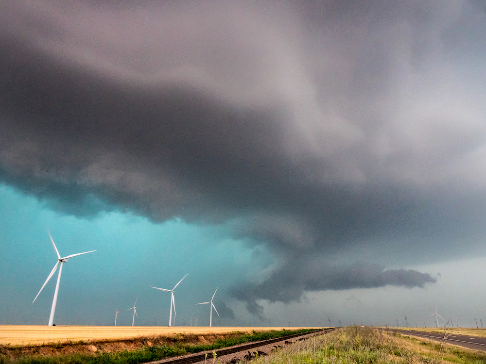 A HP supercell thunderstorm near Oklaunion, TX in 2017 over a wind farm.